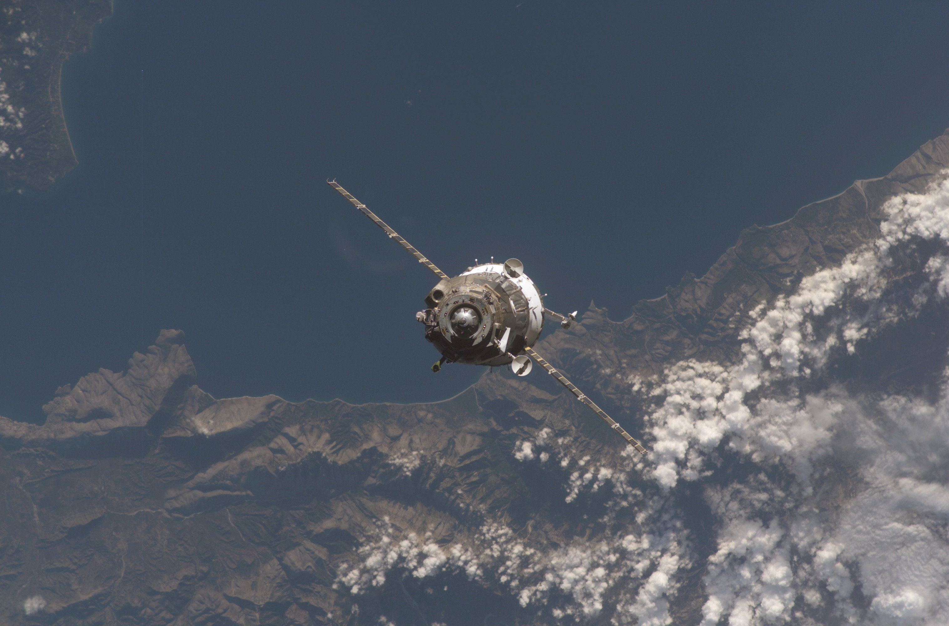 Soyuz TMA-11 approaches the International Space Station, carrying NASA astronaut Peggy A. Whitson, Expedition 16 commander; cosmonaut Yuri I. Malenchenko, Soyuz commander and flight engineer representing Russia's Federal Space Agency; and Malaysian spaceflight participant Sheikh Muszaphar Shukor.